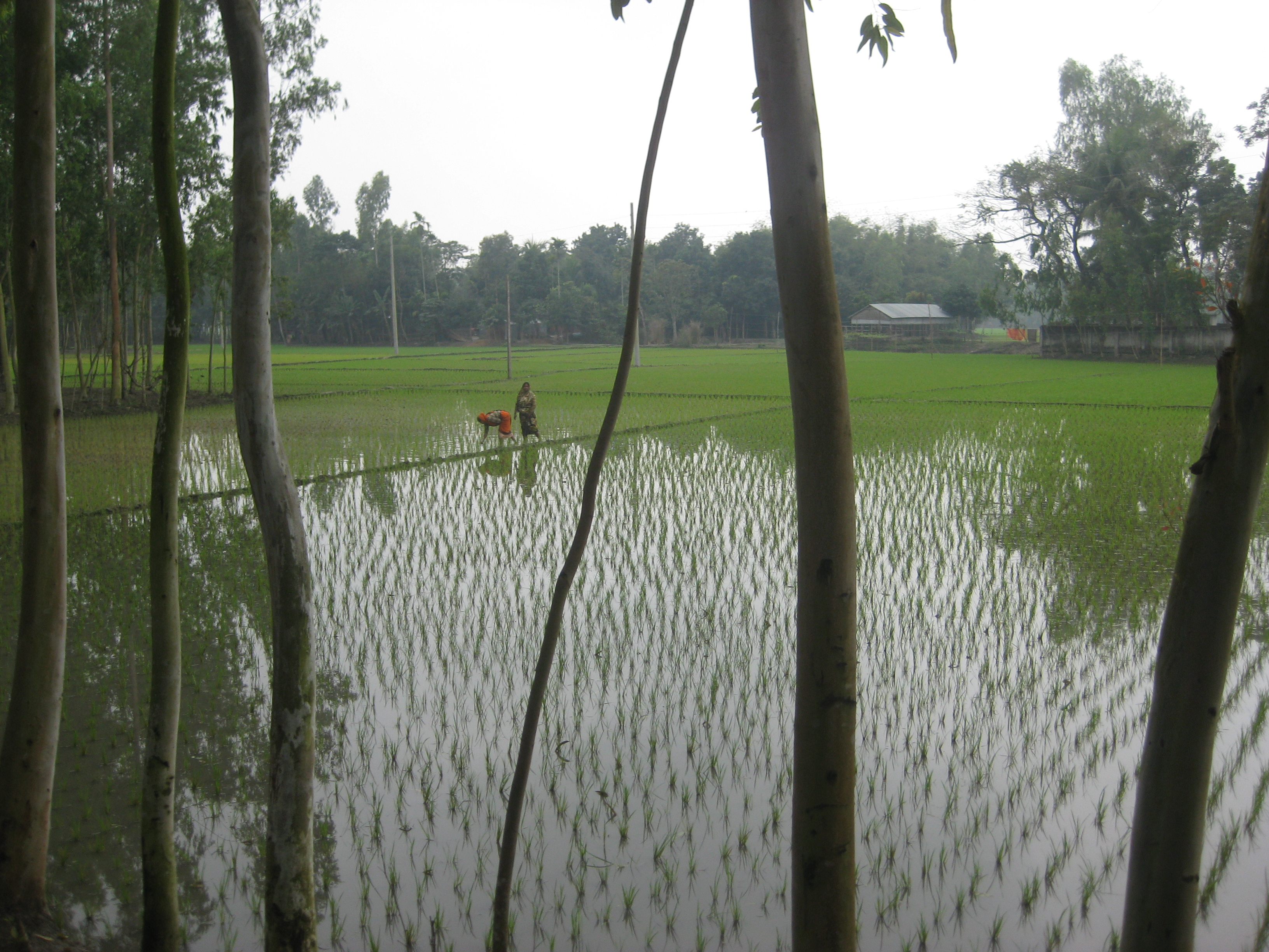 Paddy field, Gaibandha, Bangladesh February, 2014